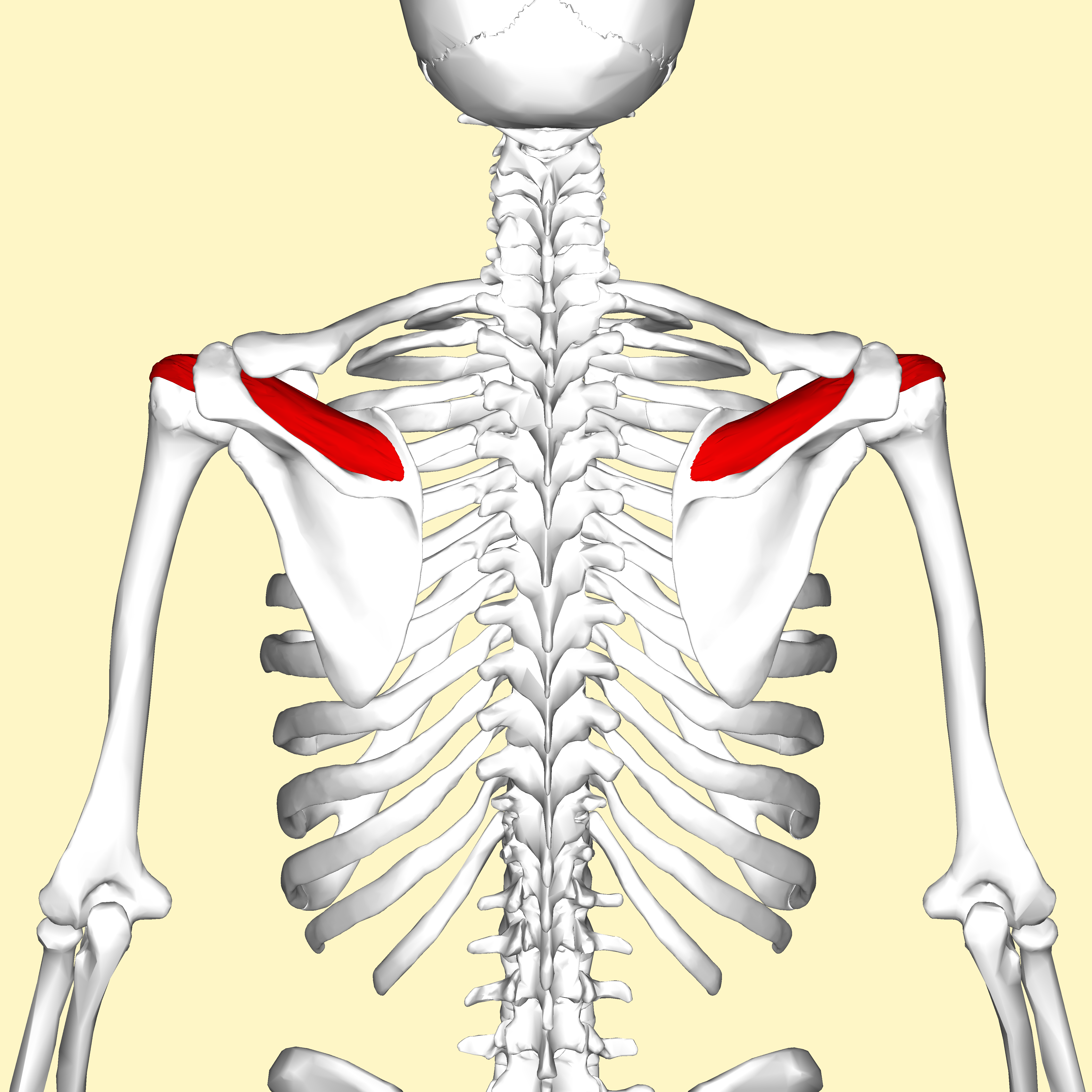 Supraspinatus muscle (shown in red).